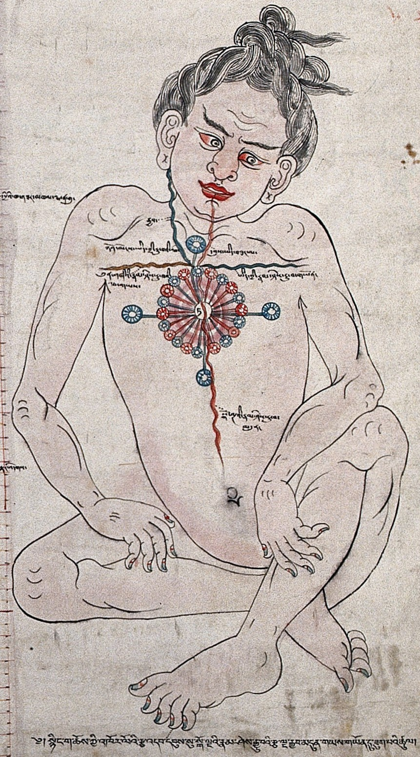 Three human bodies showing different organs, also separate figures of the vertebral column and of the solar plexus and the system of channels connected with the five senses and with consciousness. Along the top, twelve great teachers of medicine. Tibetan. Iconographic Collections Keywords: Religious Philosophies; Tibet; Anatomy; Buddhism; Chakra; Vertebrae; Taoism